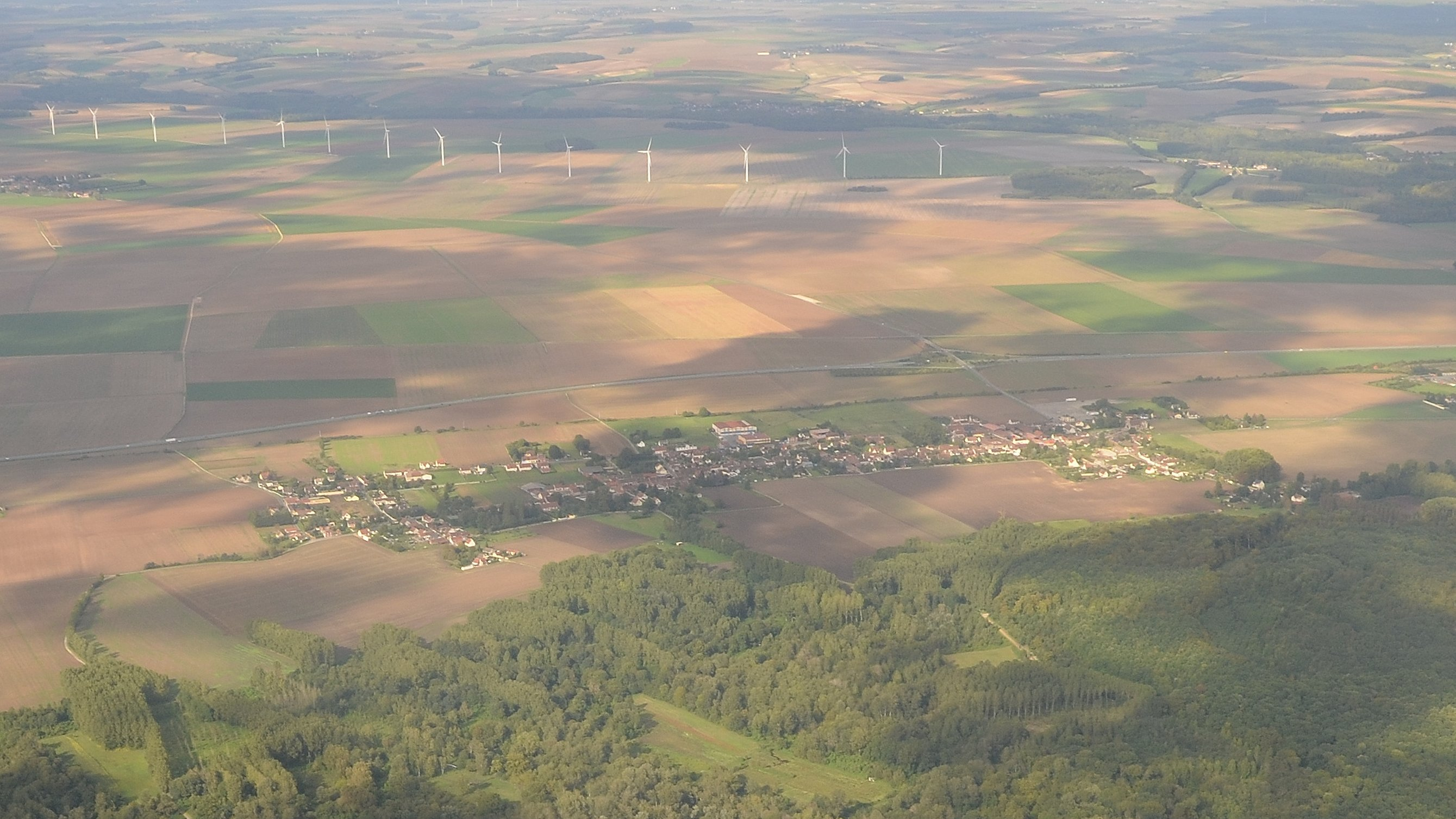 La-Rue-Saint-Pierre (Oise, France), and a wind turbines farm.